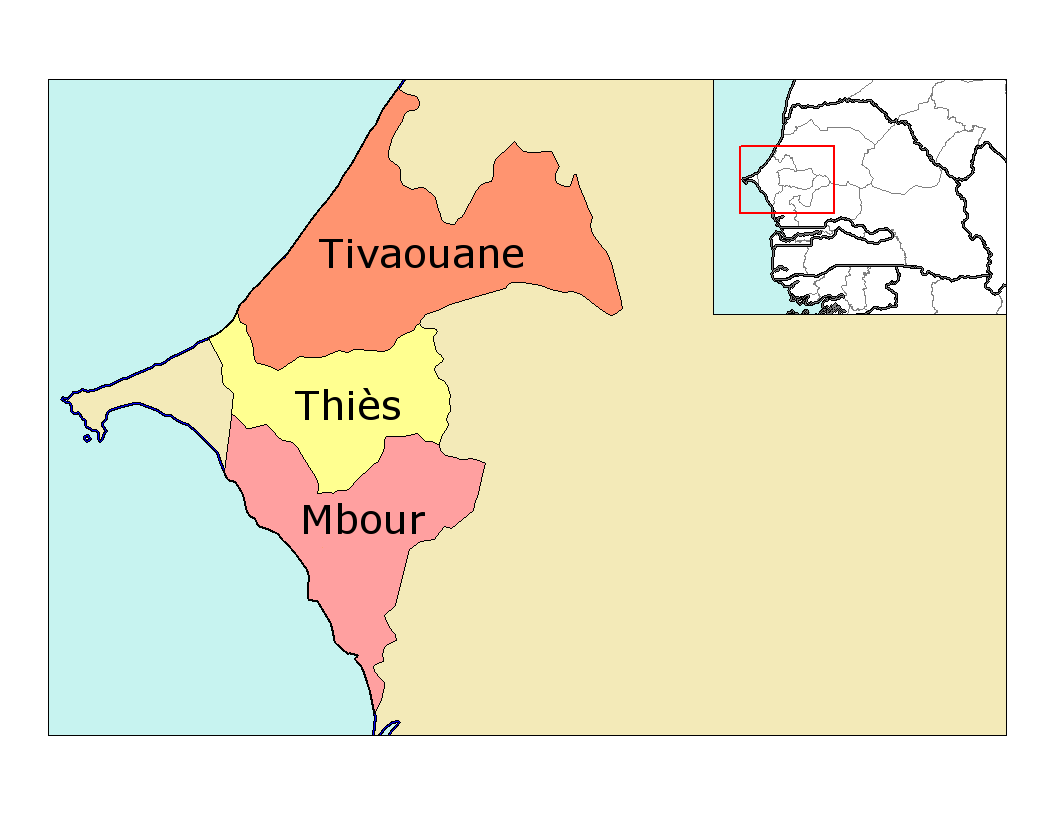 Map of the departments of Thies region in Senegal. Created by Rarelibra 22:32, 28 December 2006 (UTC) for public domain use, using MapInfo Professional v8.5 and various mapping resources.